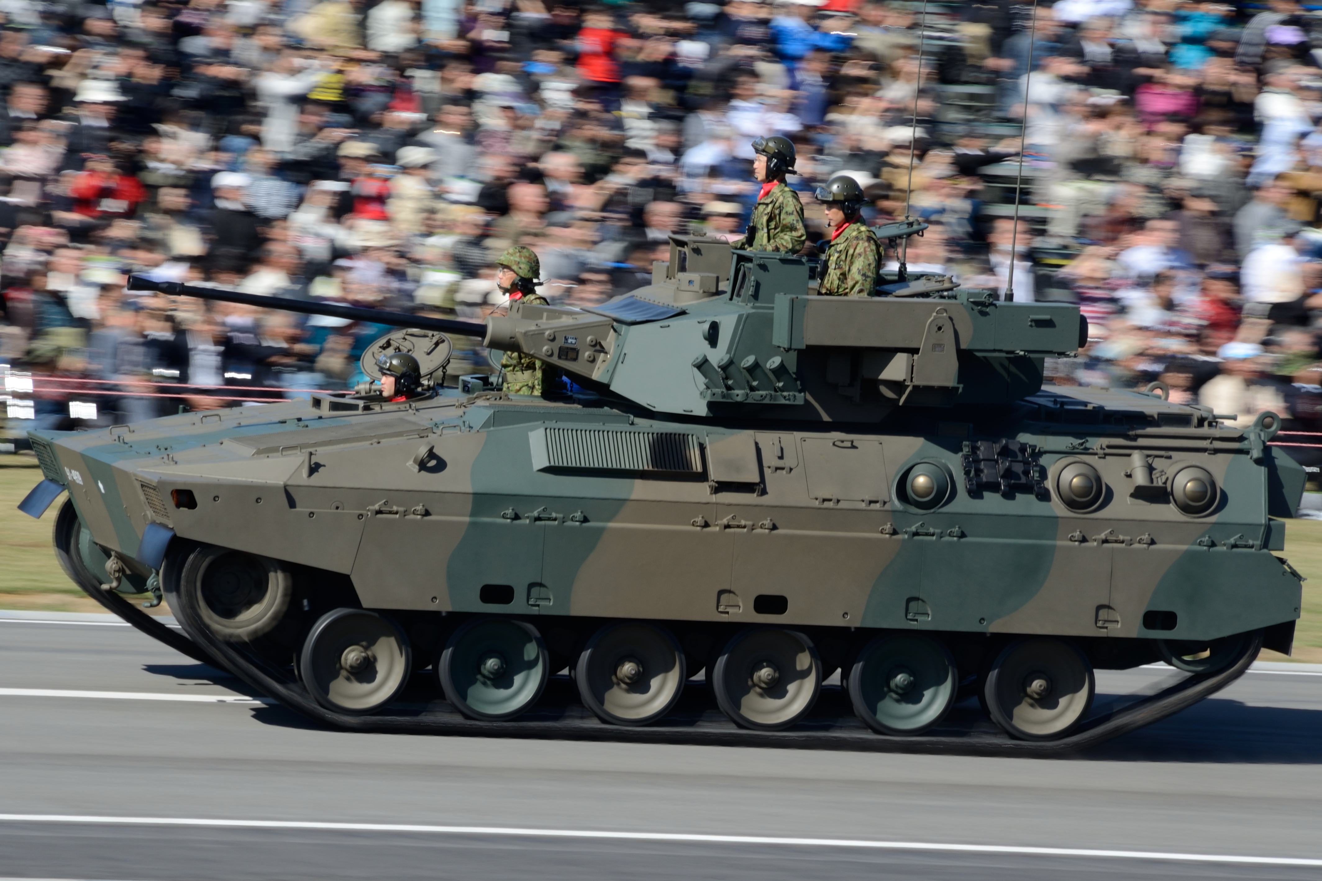 Running Type89 Infantry Fighting Vehicle of the Japan Ground Self-Defense Force at the JGSDF Review of Troops 2013.